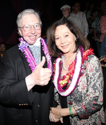 Roger Ebert and his wife Chaz Hammel-Smith give the thumbs-ups to Nancy Kwan at the Hawaii International Film Festival on October 20, 2010